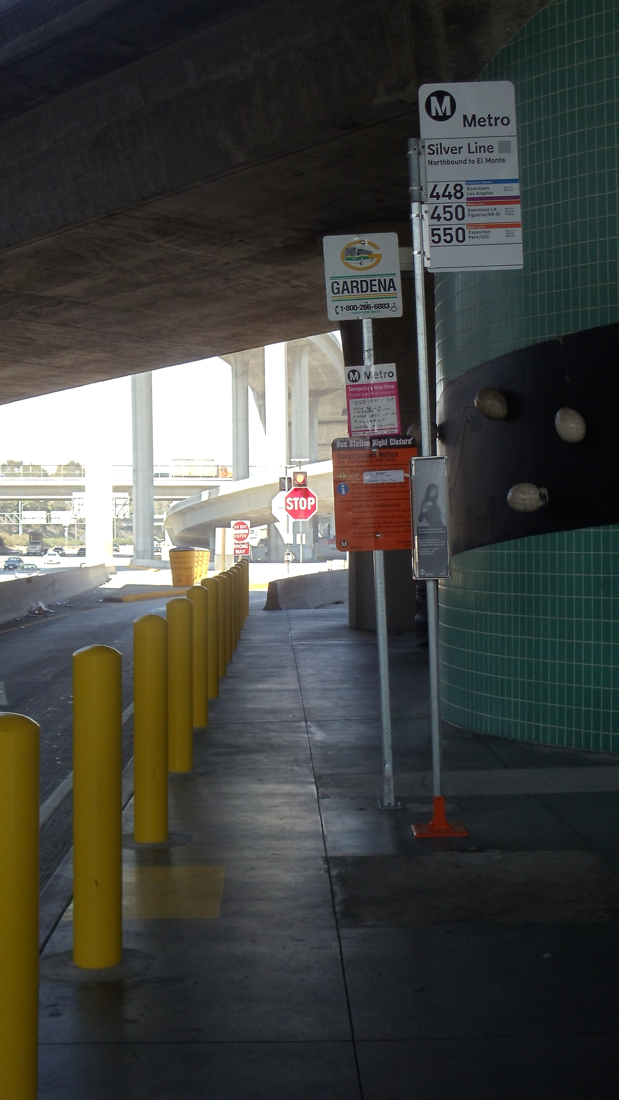 At the Harbor Freeway Station, passengers can connect to the Metro Silver Line bus rapid transit as a alternative to the Metro Blue Line.